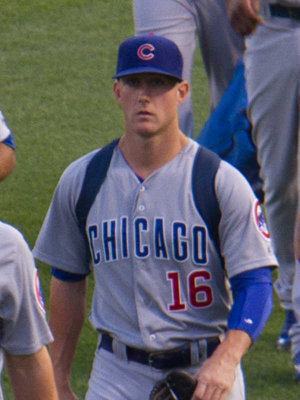 Jeff Beliveau